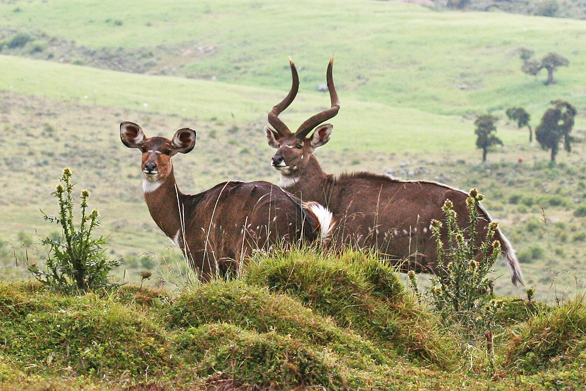 Mountain Nyala photographed in Bale mountains national park in the fenced area around the park headquarters